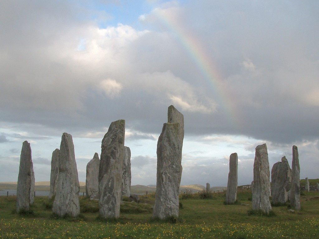 Standing stones at Callanish, Isle of Lewis